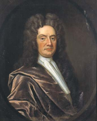 Andreas Gottlieb von Bernstorff hannoverian politician